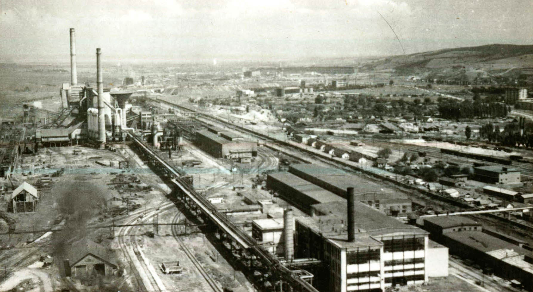 Hunedoara steel plant.